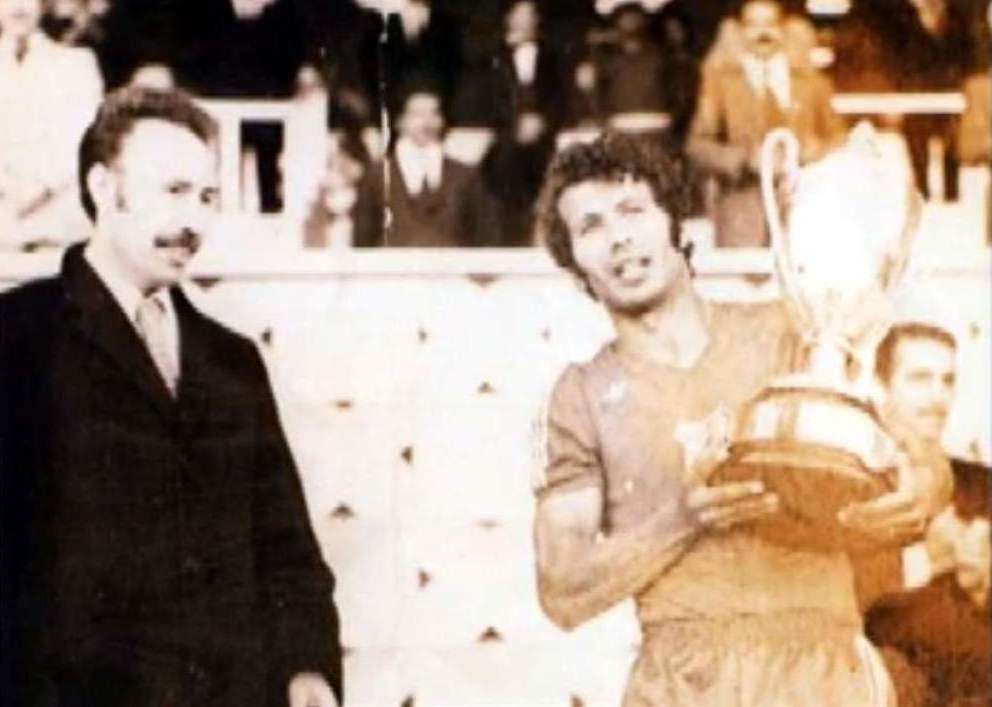 Abdellah Kechra, Algerian cup winner in 1975 with MC Oran. Here with president Houari Boumediene